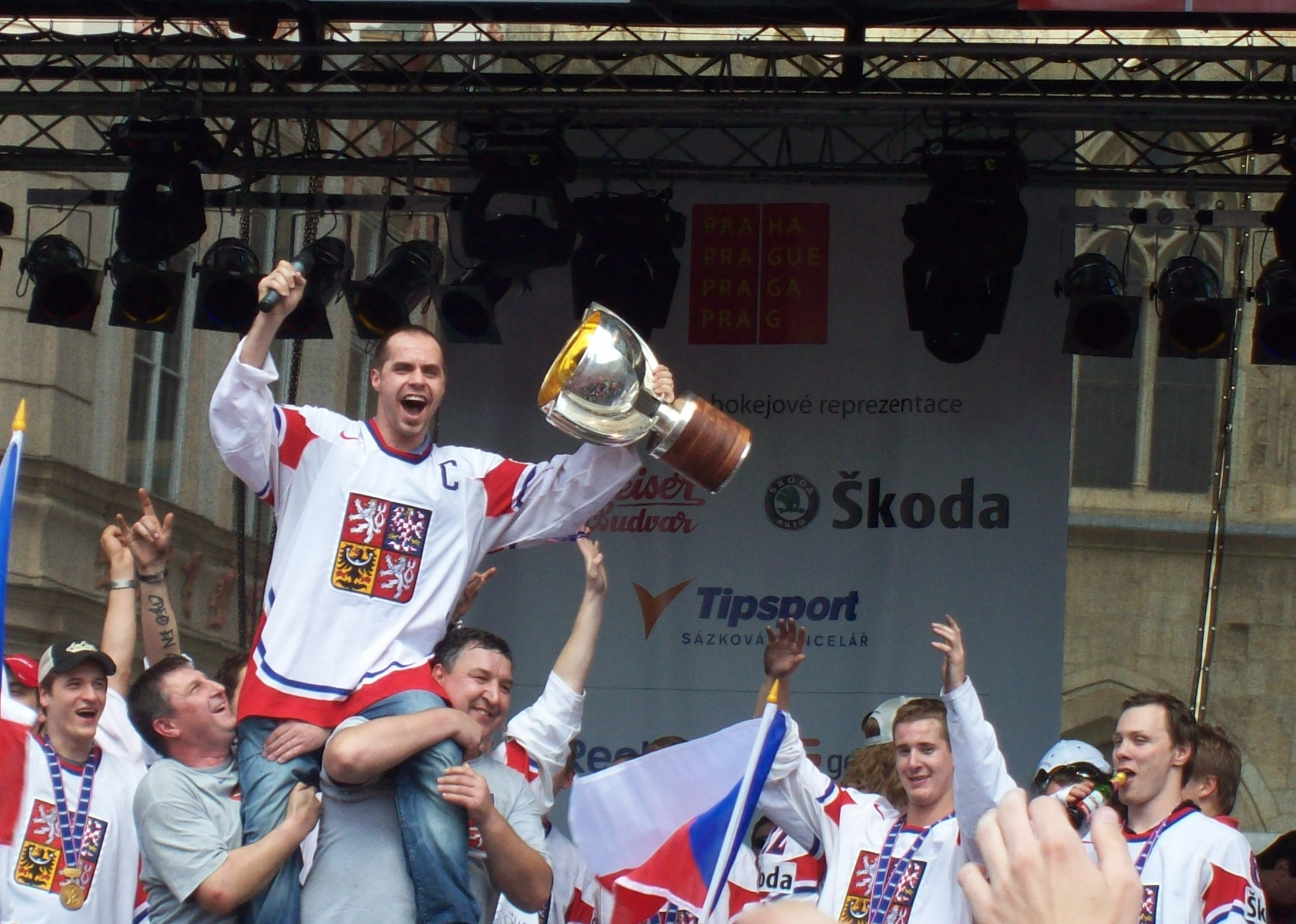 Tomáš Rolinek, Czech ice hockey player